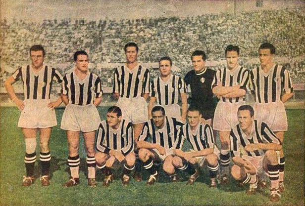 A line-up of Juventus in the 1942–43 season, posing inside the "Mussolini" Municipal Stadium in Turin, Italy. From left to right, standing: C. Parola, V. Sentimenti (III), G. Varglien (II), M. Ventimiglia, L. Sentimenti (IV), A. Foni, U. Locatelli; crouched: T. Depetrini, G. Meazza, S. Bellini, R. Lushta.